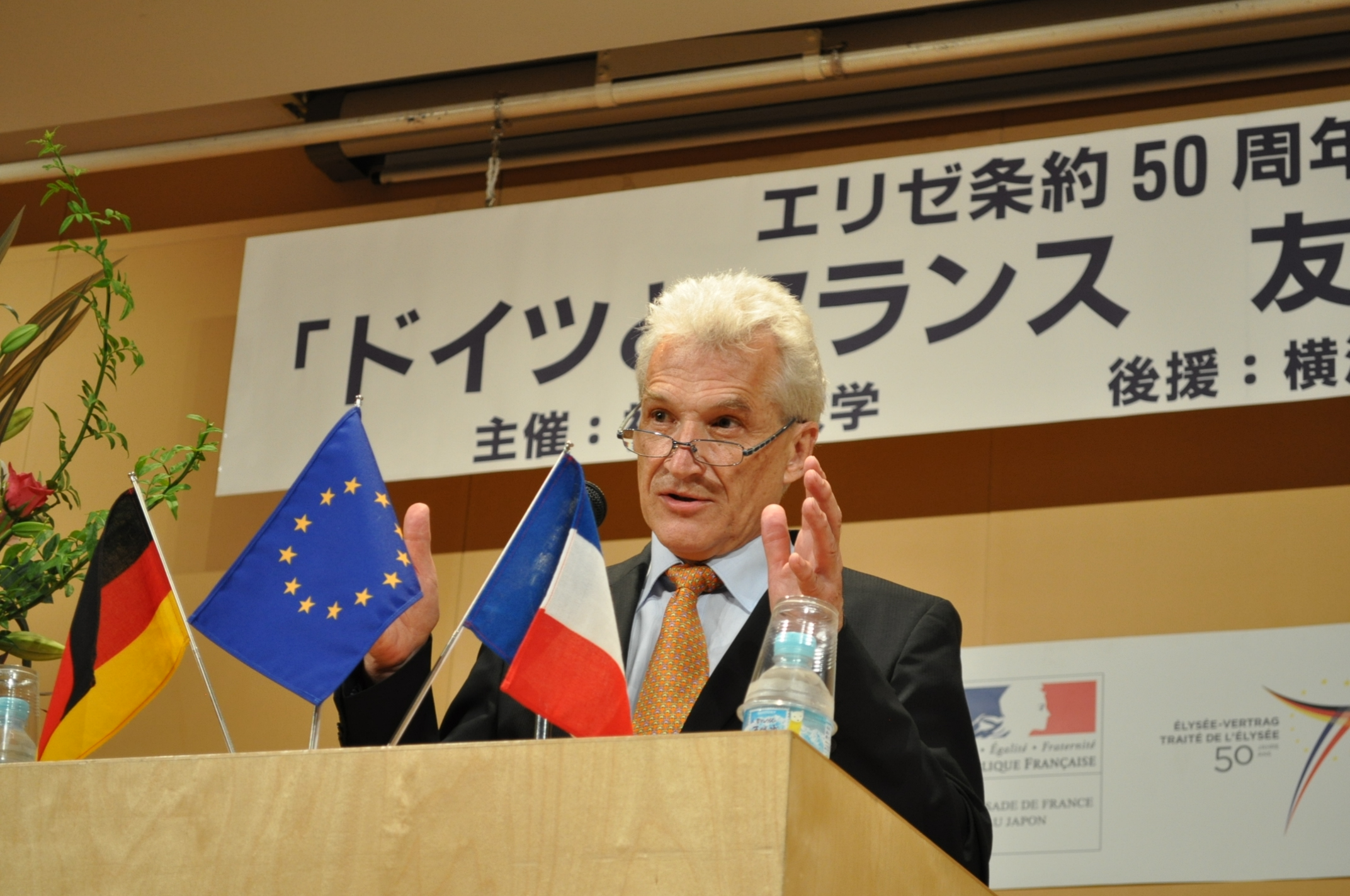 Volker Stanzel, former German Ambassador to China and Japan